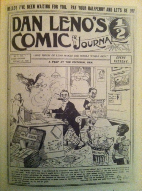 Edition Number One of Dan Leno's Comic Journal first published 26 February 1898